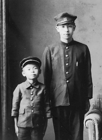 Seizō Itō, Kiyoshi Itō, Tsuyo Itō and Seitarō Itō posed for photos with Seihachi Itō and Mishi Itō on 1937.